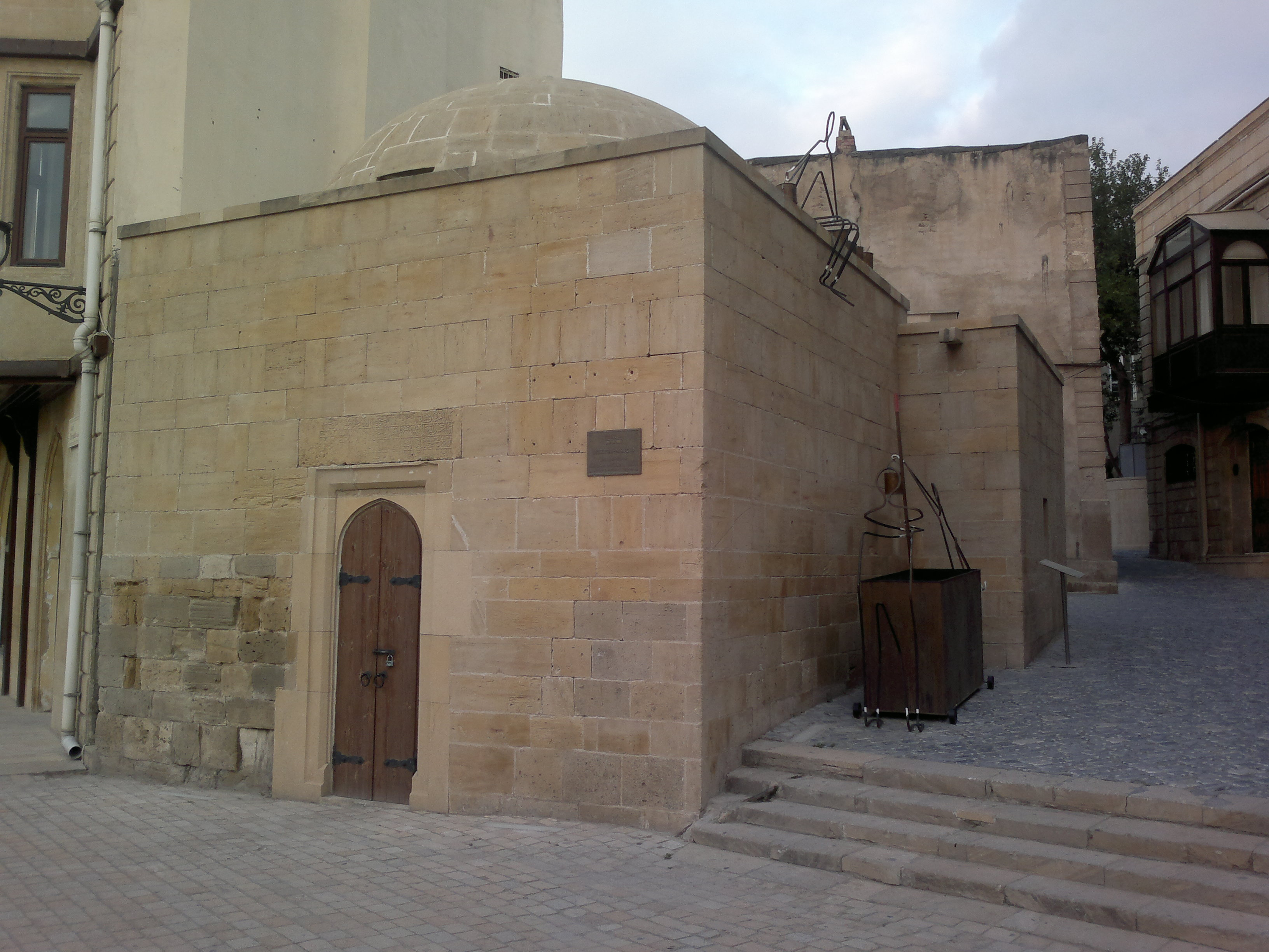 Mosque in Ichery Sheher (Baku). Built in 1646/47.